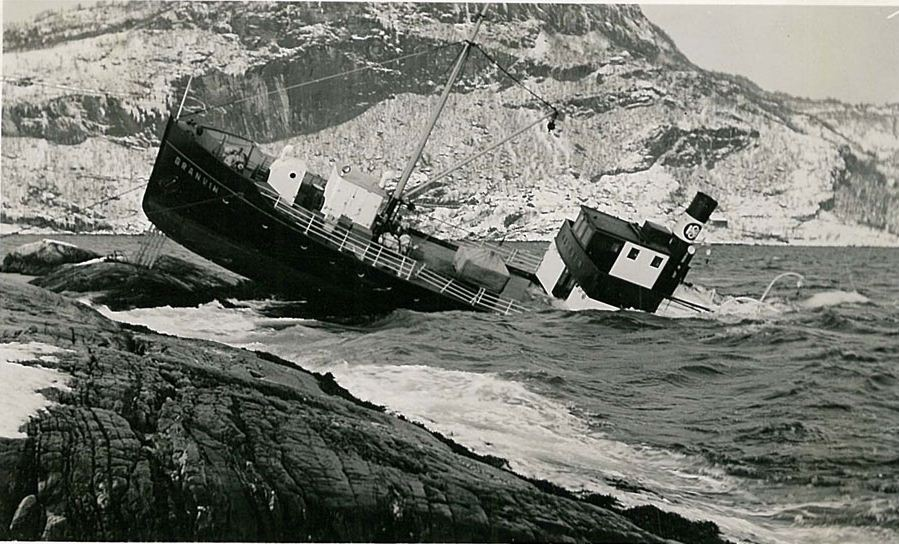 The shipwrecked MS Granvin at Kvamsøy, Hardanger, 1933.